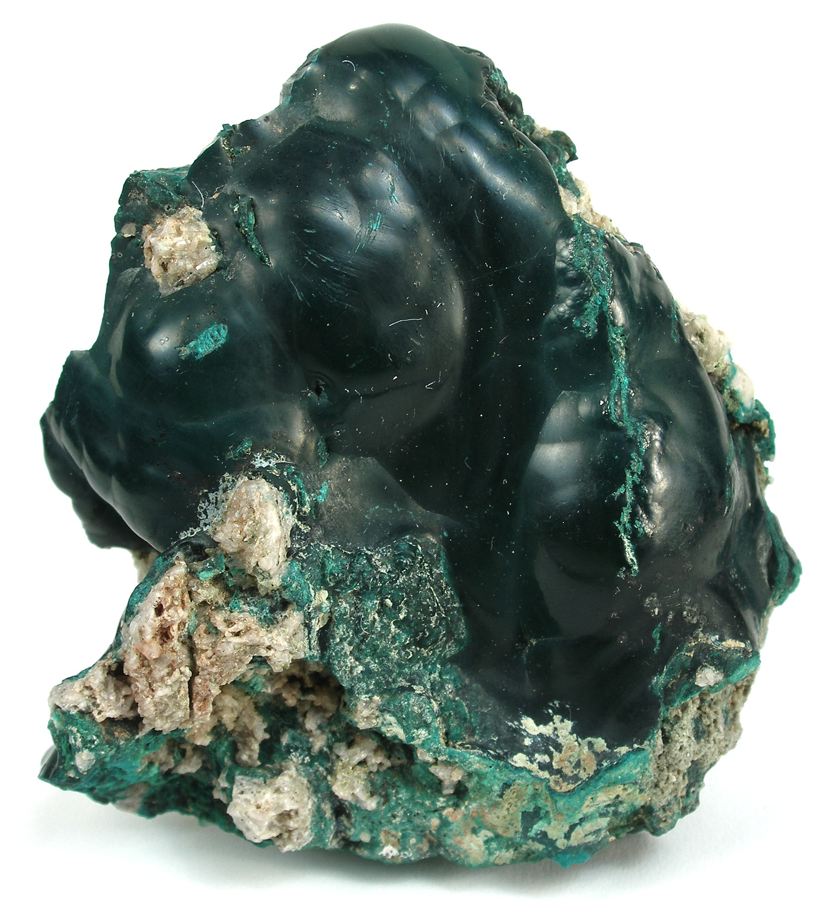 Pseudomalachite Locality: Luiswishi Mine, Lubumbashi (Elizabethville), Southern area, Katanga Copper Crescent, Katanga (Shaba), Democratic Republic of Congo (Zaïre) (Locality at ) Size: small cabinet, 7.2 x 6.6 x 4.0 cm Pseudomalachite NOTE THAT Pseudomalachite is a PHOSPHATE and not a carbonate like "plain" malachite is - and is very rare, and often misidentified or simply not recognized at all by those who do not know. However, in person, material from at least this locality has a subtly different color and texture than malachite which also occurs here. This is a large, display-quality example of this relatively rare species, from one of the most important of localities for it. The biggest and best, most intensely colored material has come from here. It has a very pleasing, botryoidal , thickly layered growth of Pseudomalachite nicely perched on contrasting matrix. The thickness is over 1 cm in places, and you can see this from the sides. Impressive display quality specimen, From an old German collection.